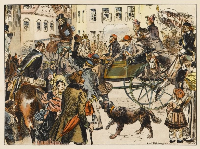 Bismarck Is Expelled from Jena University. (Drawing by Carl Röhling (1849-1922))